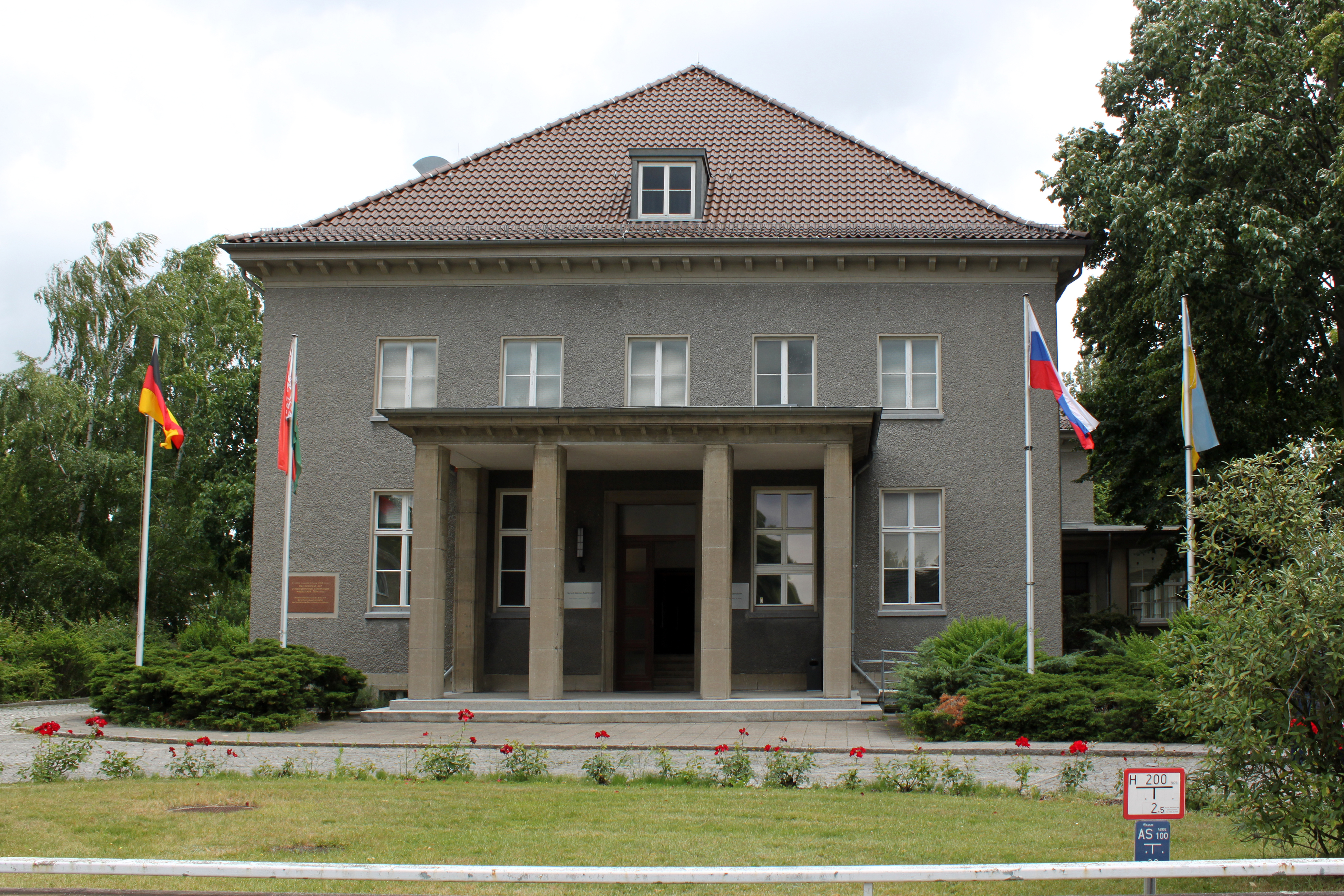 German-Russian Museum, Karlshorst, Berlin, Germany. The museum is located at the historical venue of the unconditional surrender of the German armed forces (Wehrmacht) on 8 May 1945.